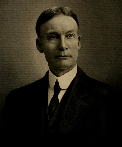 Portrait of Frank W. Blackmar (1854-1931), American scholar